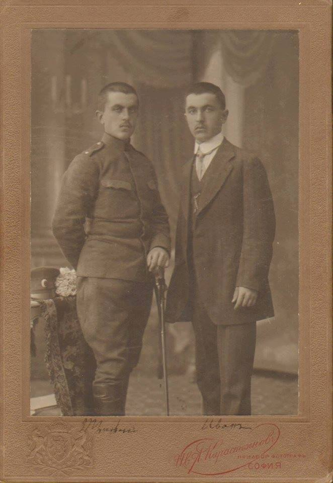 General major Trifon Trifonov and professor Ivan Trifonov (brothers)